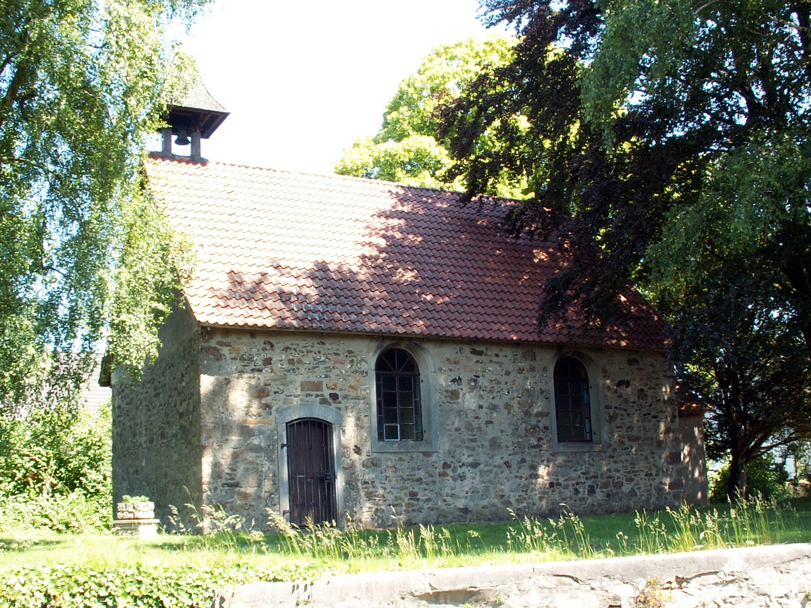 This is a photograph of an architectural monument.It is on the list of cultural monuments of Bünde